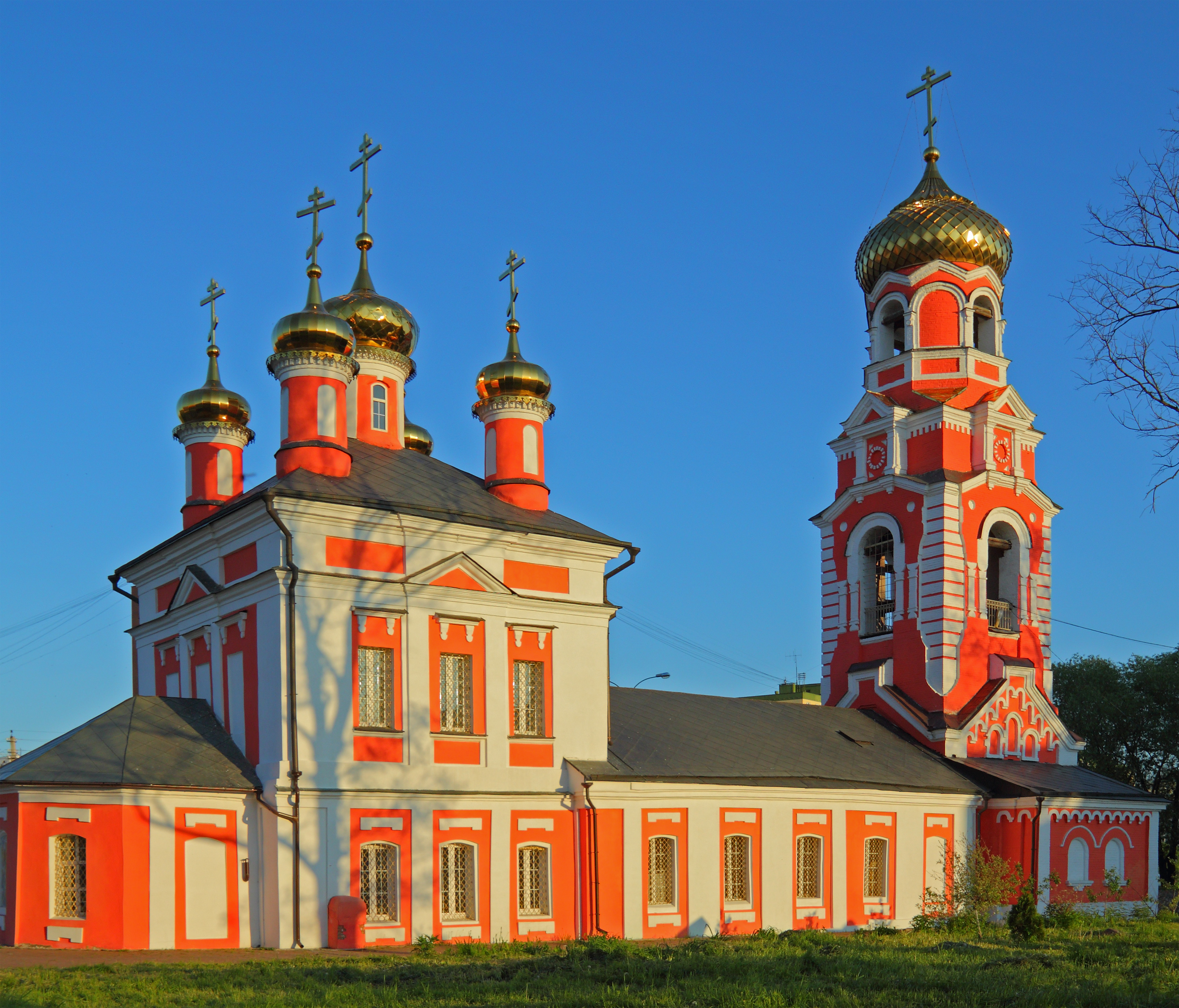 Dmitrov, Moscow Oblast, Russia. Church of the Presentation of Jesus at the Temple.